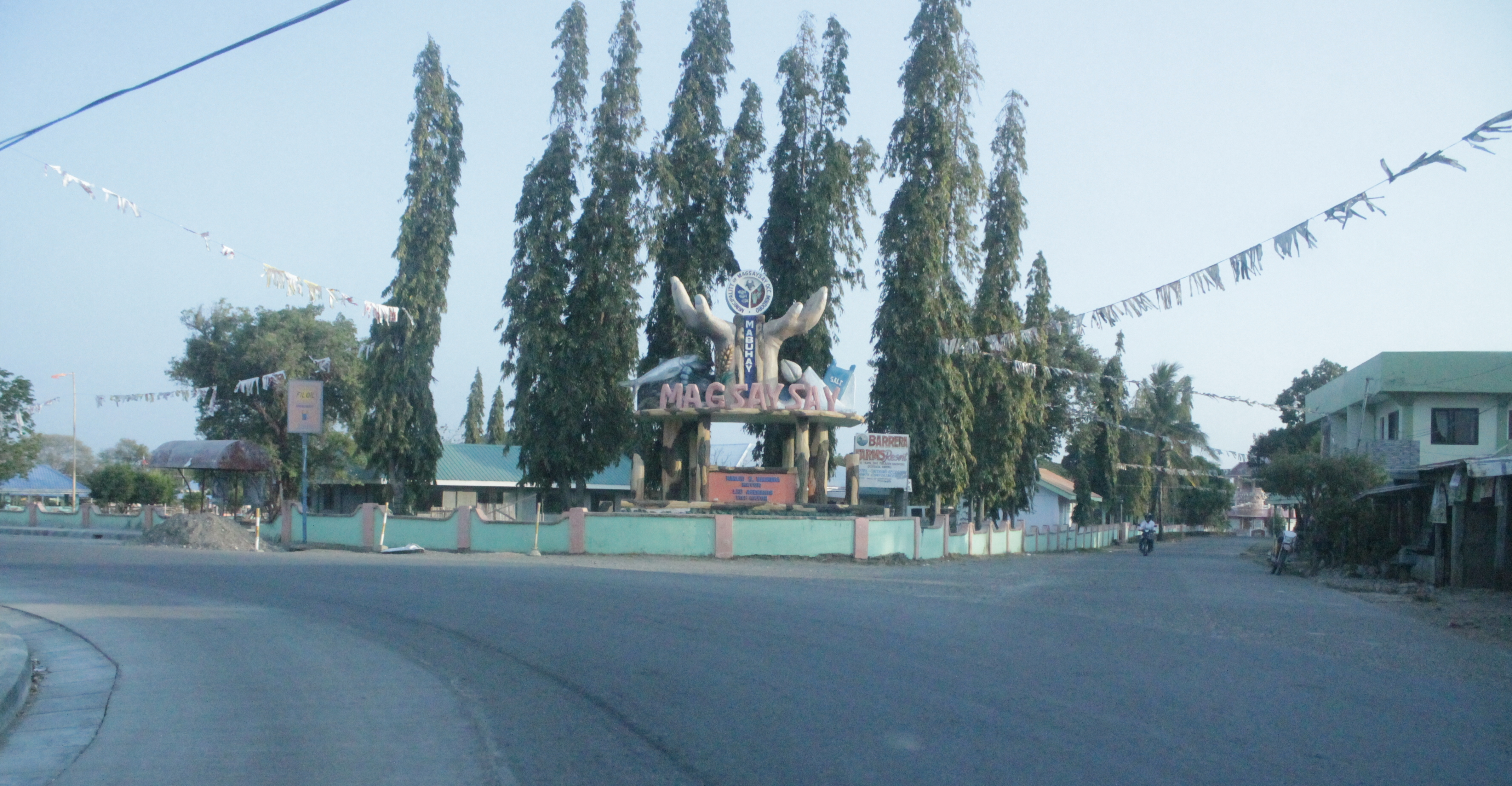 Magsaysay town signage near the town plaza.